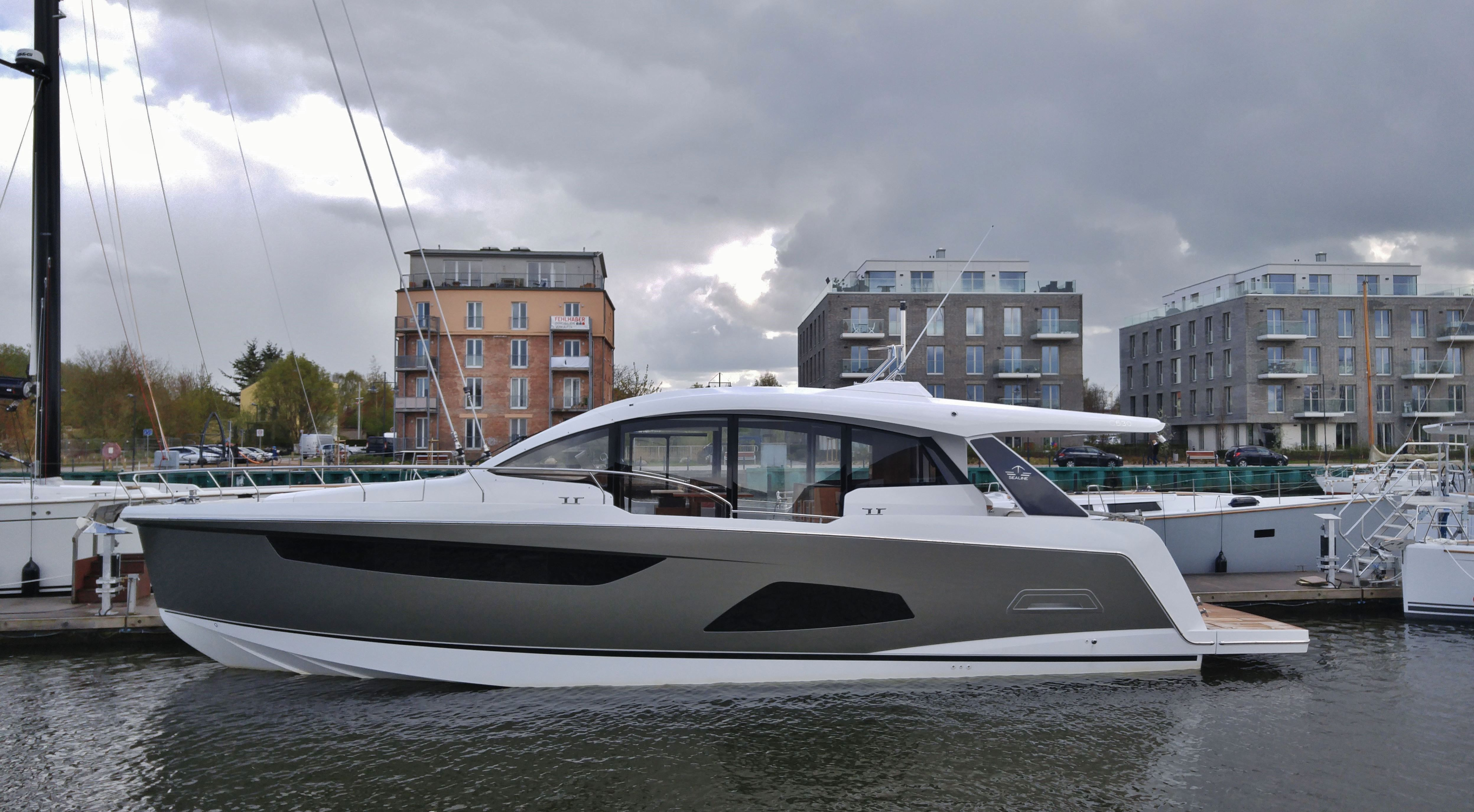 Sealine C530, motoryacht of the Sealine brand, 53 ft in length, photo